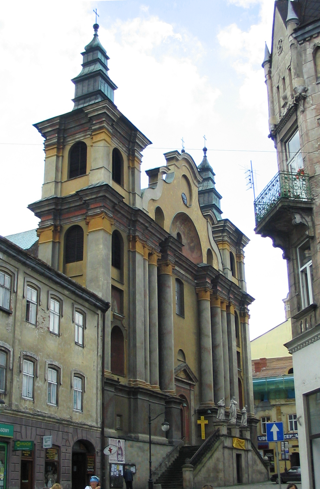 Franciscan monastery in Przemyśl.